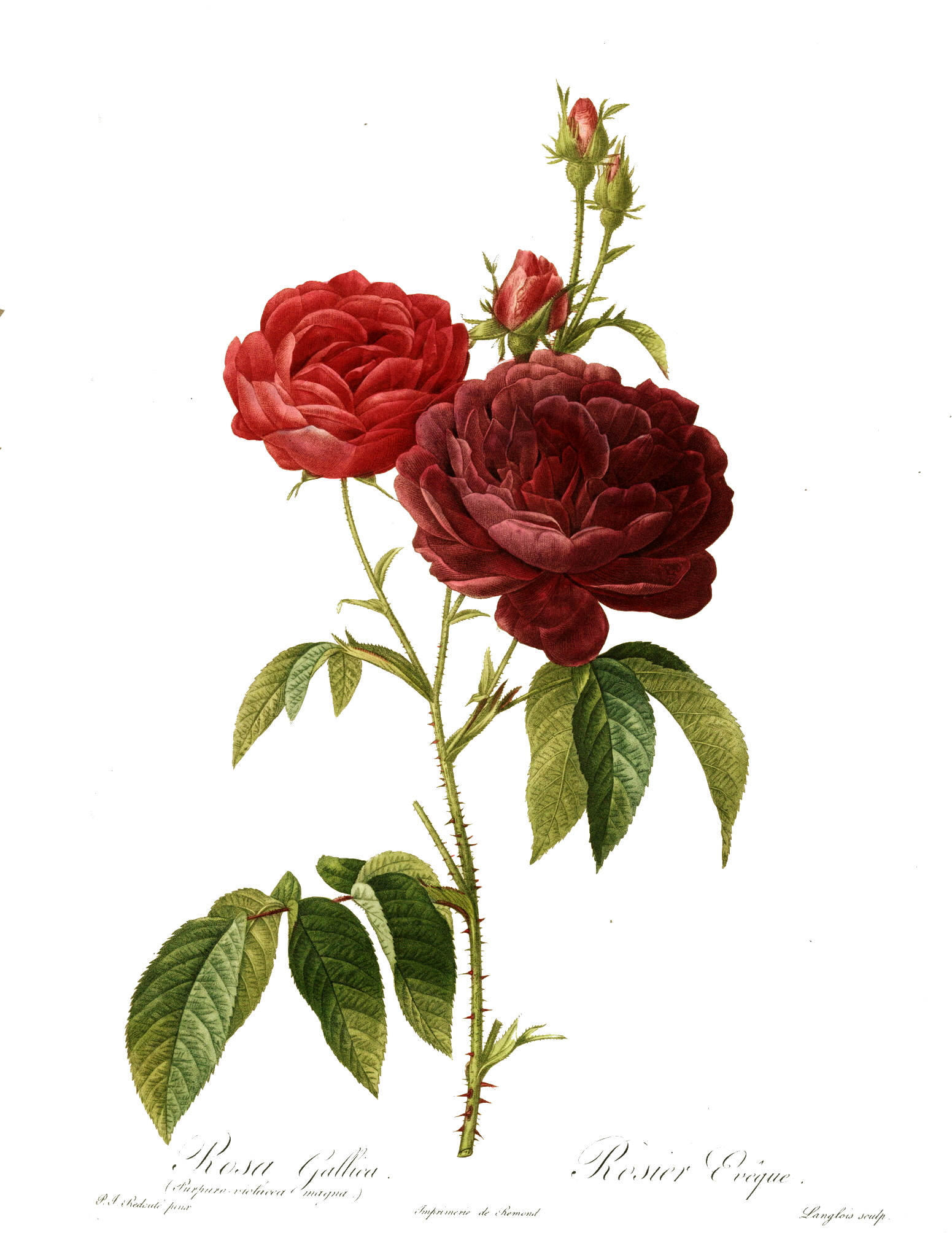 Rosa gallica purpuro-violacea magna, a painted engraving of a rose by Pierre-Joseph Redouté (1759–1840).